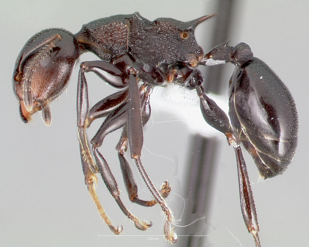 Profile view of ant Atopomyrmex cryptoceroides specimen casent0005914.